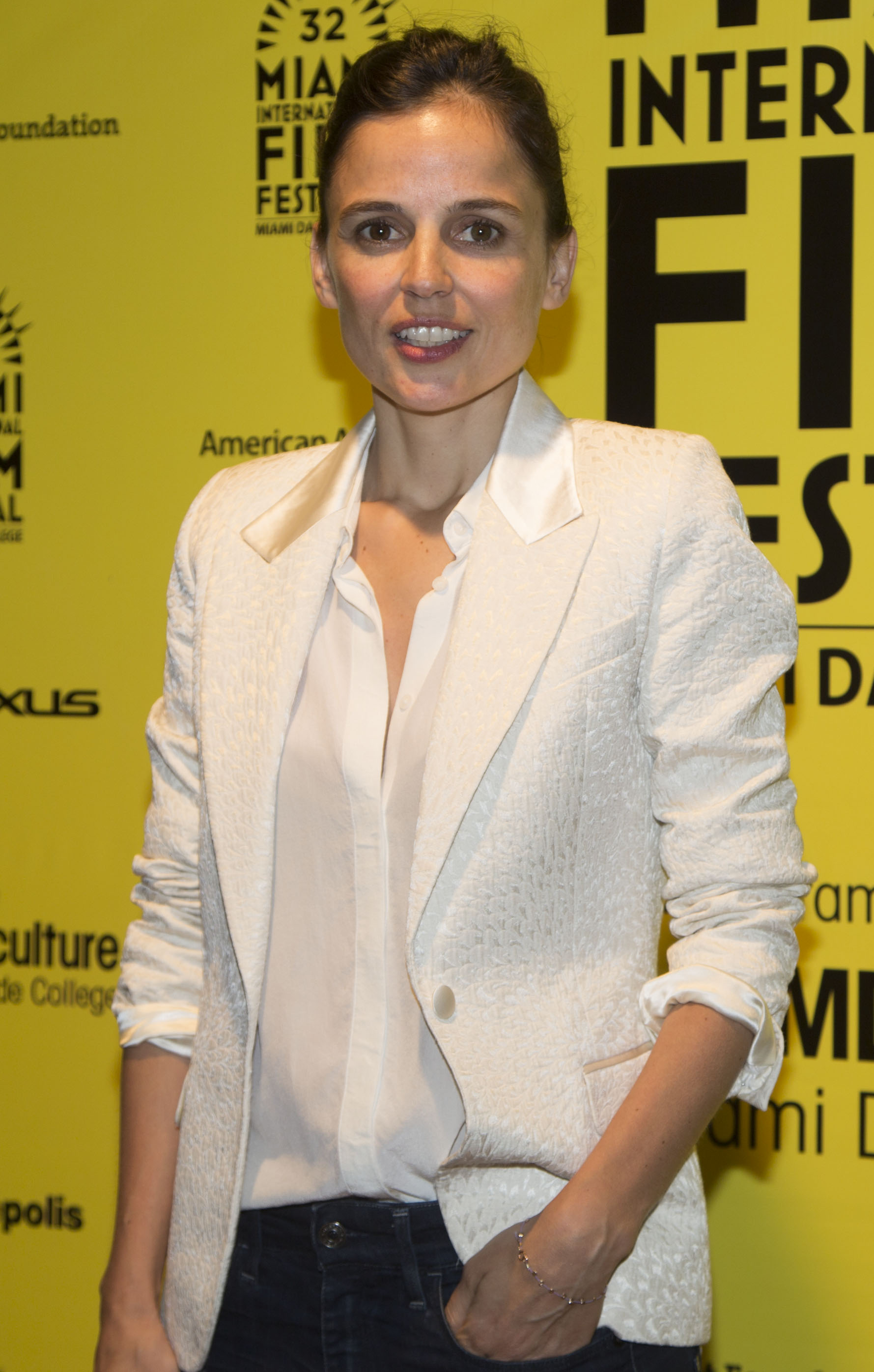 Actress Elena Anaya at MIFF 2015 presentation of "They Are All Dead", Cinepolis , March 9, 2015